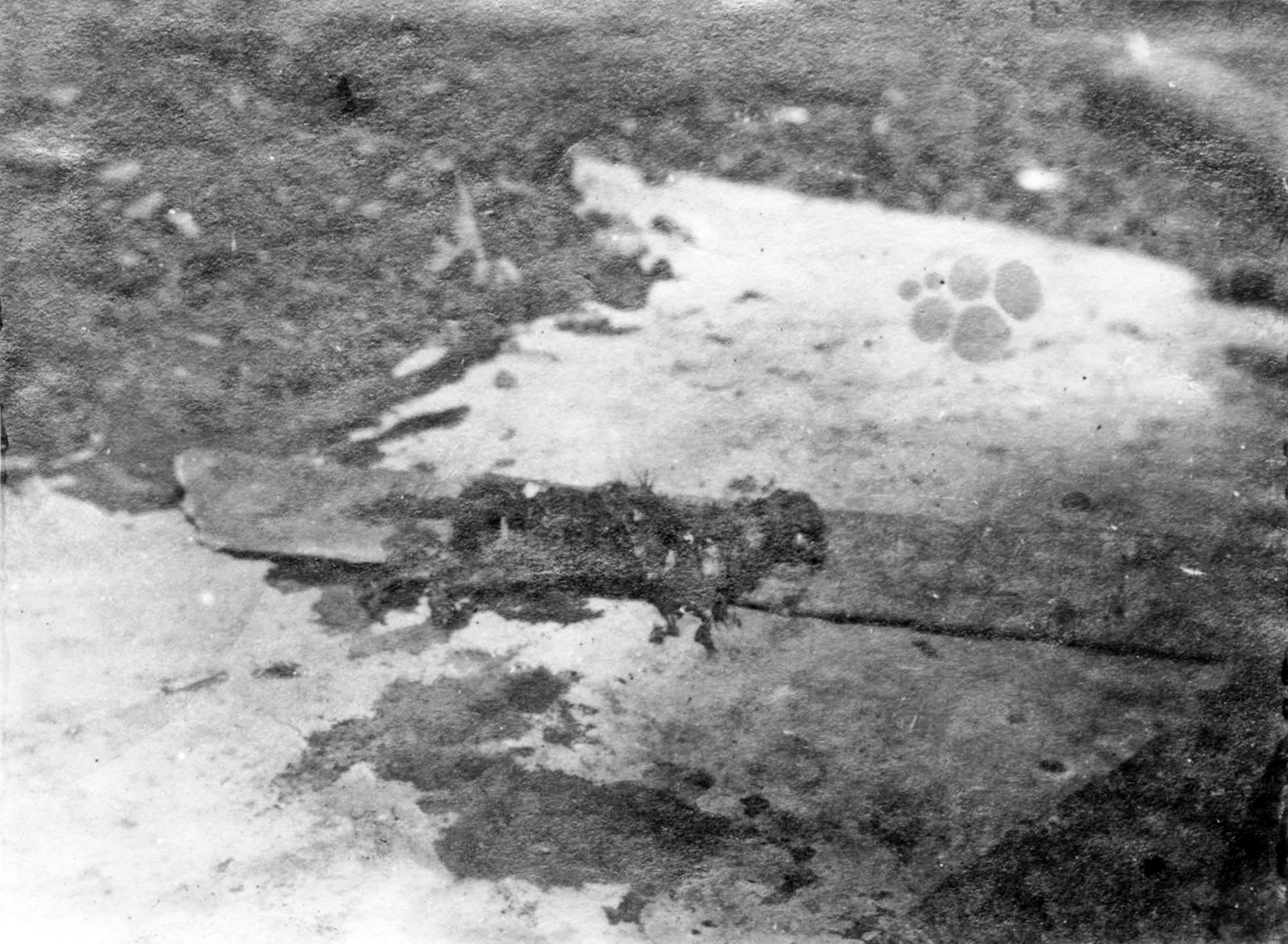 Photo № 121. The body of the dog "Jimmy", which belonged to Grand Duchess Anastasia Nikolaevna found at the mine.